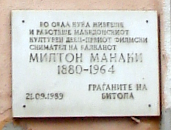 Sign of the house of Miltos Manakis, pioneer cinematographer in the balkans, Bitola, Republic of Macedonia.